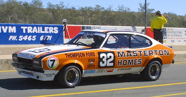 Ford Capri at Queensland Raceway as raced by Colin Bond from 1980-82